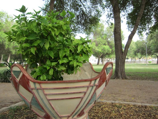 منظر من حديقة السعادة العامة.